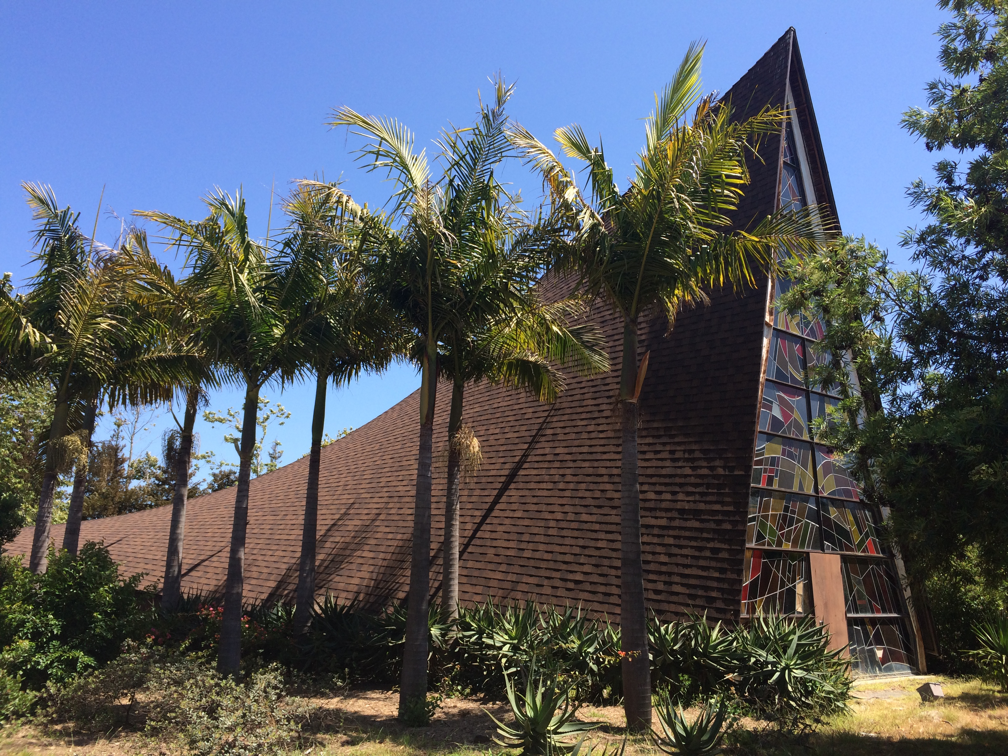 St. Michael's University Church (originally St. Michael and All Angels Church) at 6586 Picasso Road in Isla Vista, California. This chapel was built in 1963, architect Carleton Winslow, Jr., with stained glass designed by Vern Swanson. Also posted on Flickr and on LocalWiki.